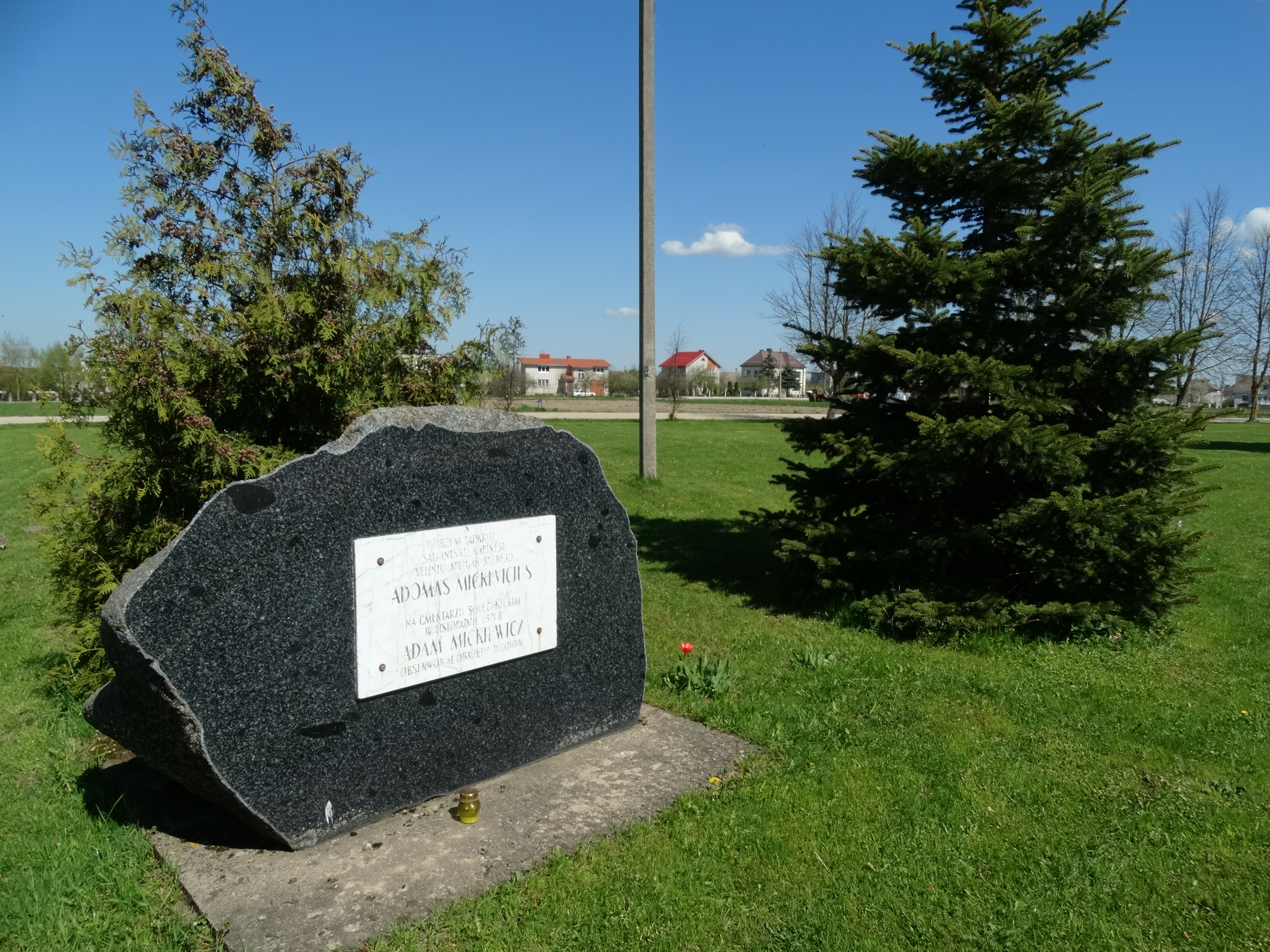 Memorial stone to Adam Mickiewicz, chuchyard, Šalčininkai, Lithuania